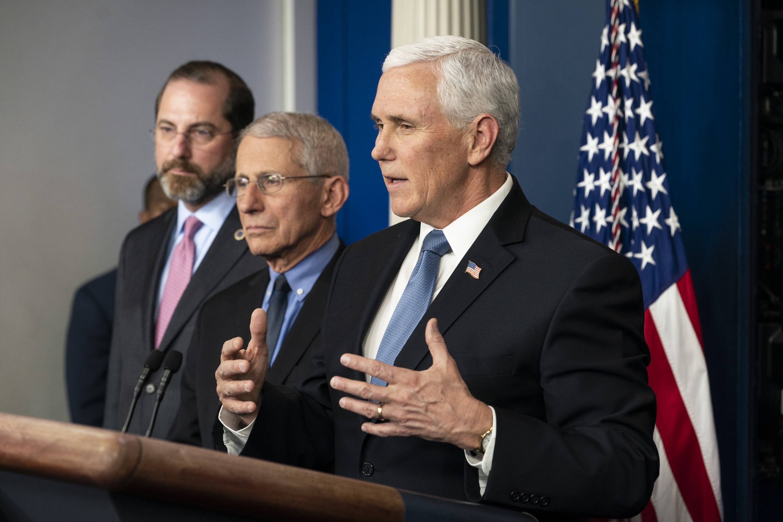 Vice President Mike Pence delivers remarks at a Coronavirus Task Force update Saturday, Feb. 29, 2020, in the James S. Brady Press Briefing Room of the White House. (Official White House Photo by Joyce N. Boghosian)